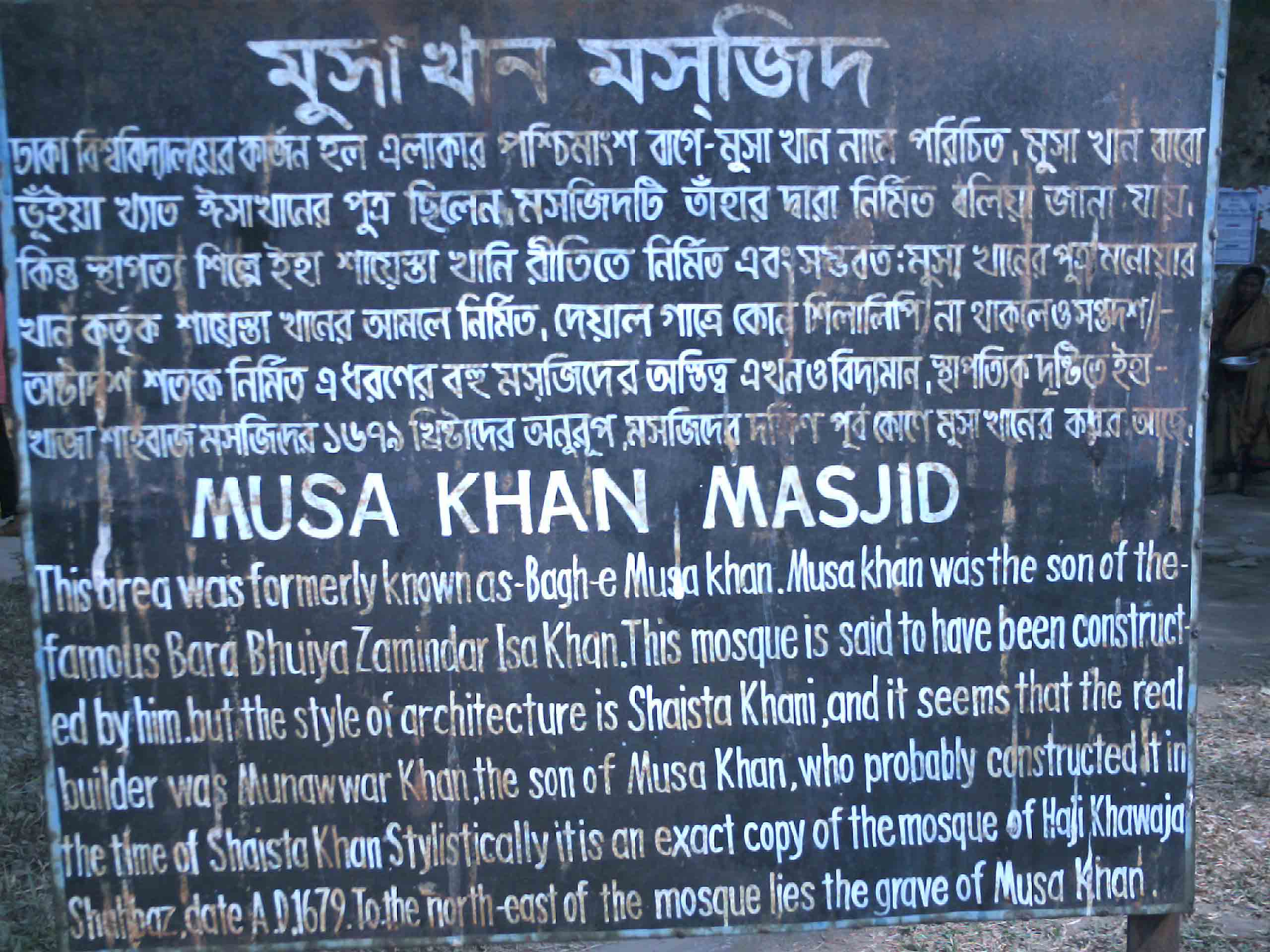 Source: I took this picture. Location: University of Dhaka